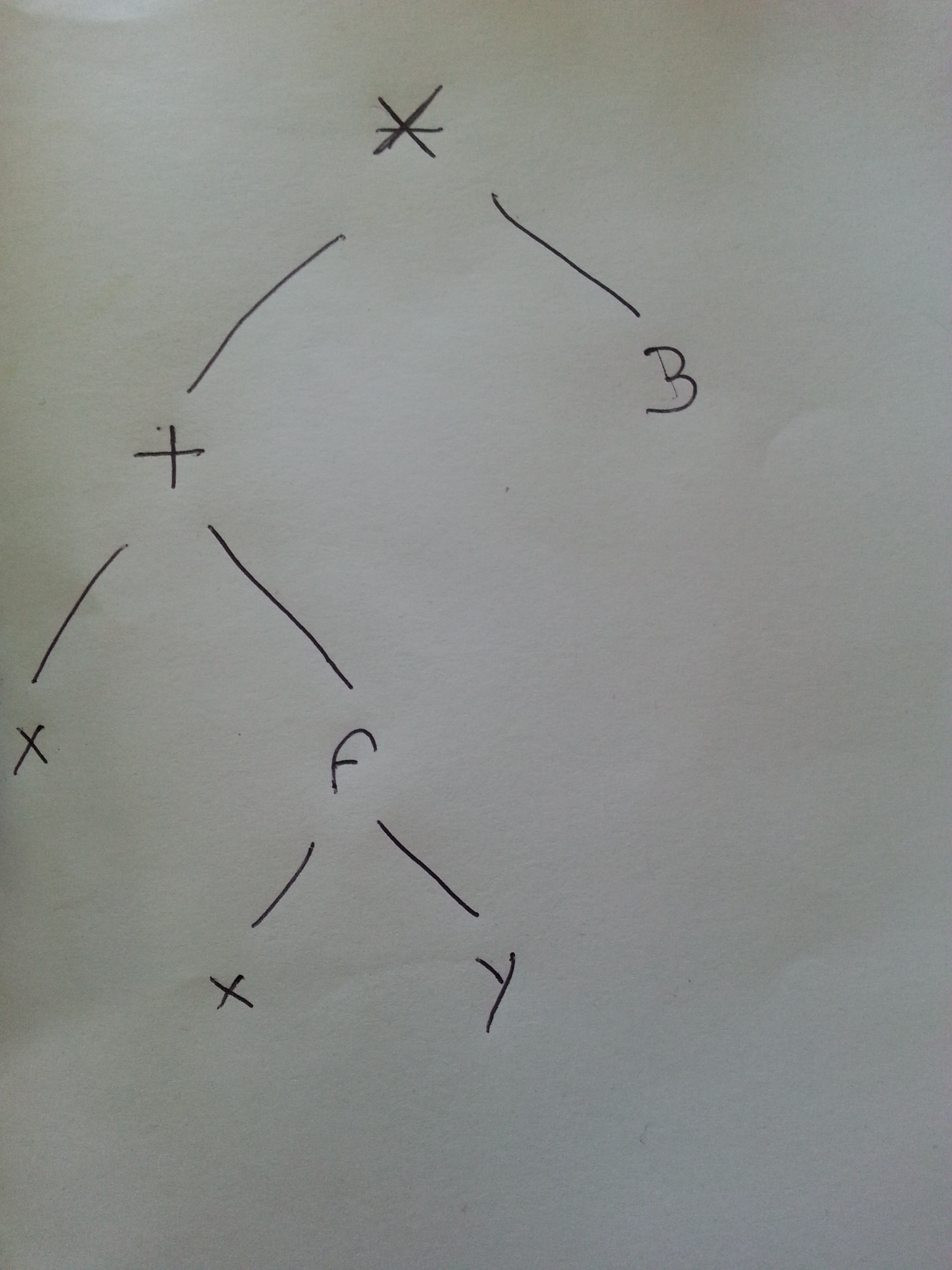 The term (x+f(x,y))*3 as a tree